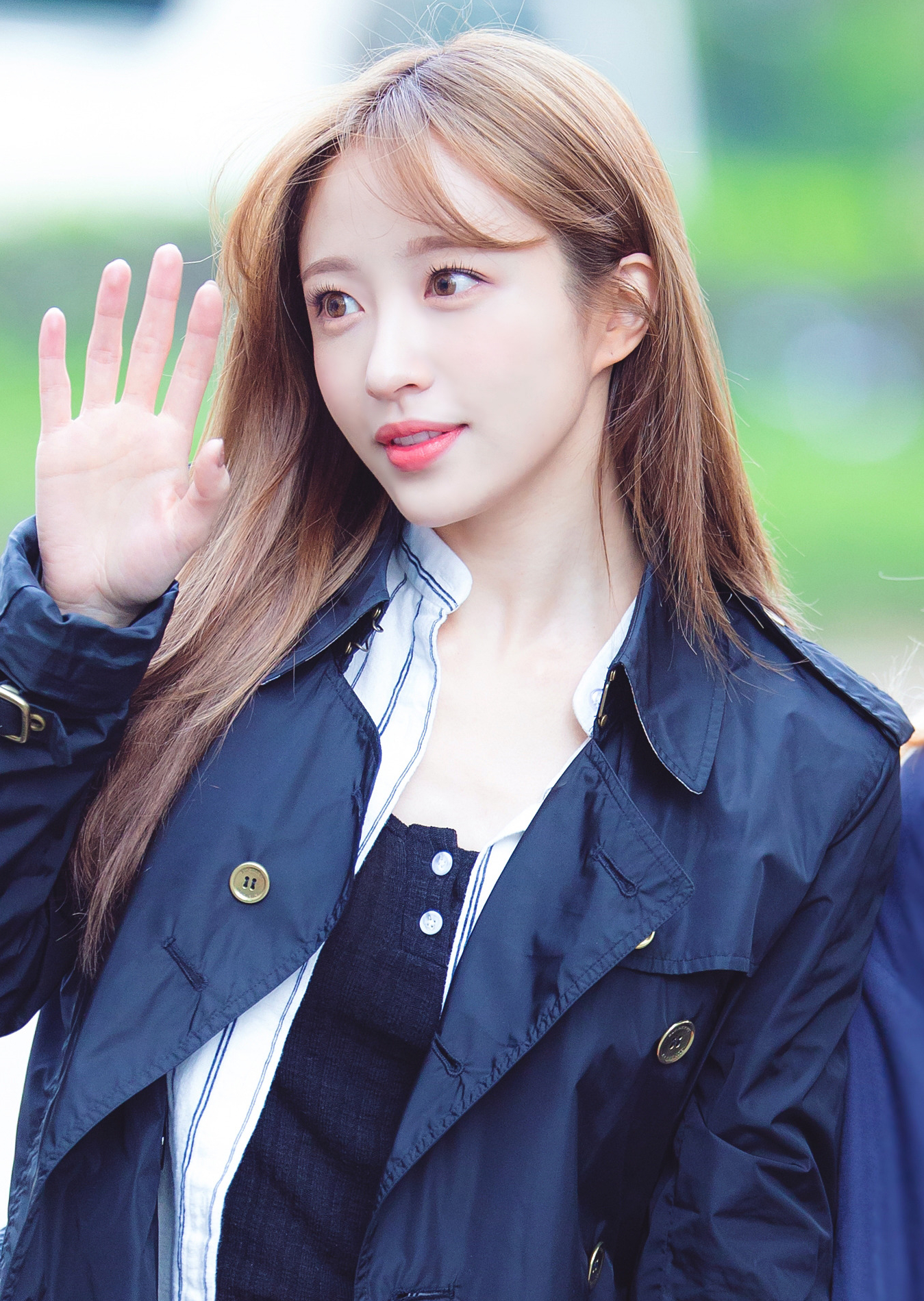 Hani to a Music Bank recording in April 2017.